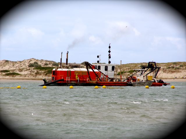 Dredge in the Coorong to remove silt from the Murray Mouth in South Australia